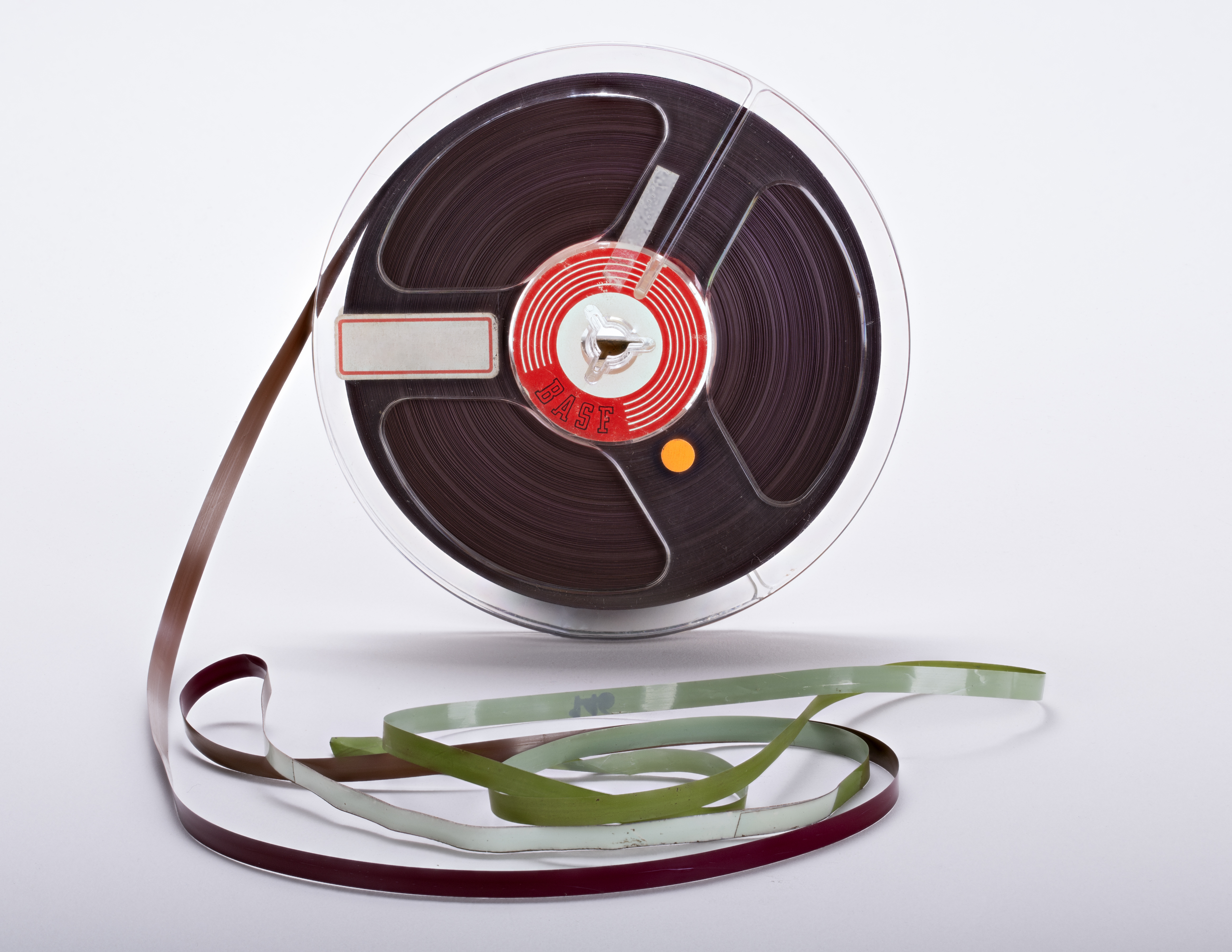 A BASF magnetic audio tape, produced in the 1950's with green start sectionFocus stacking of 8 pictures.